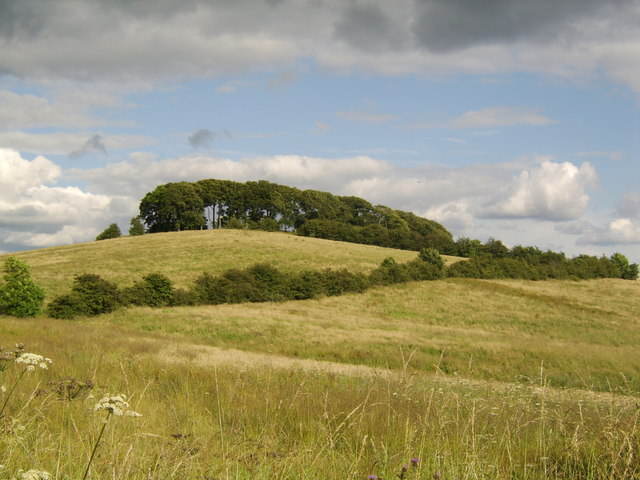 Castle Hill, Bearsden Viewed from Peel Glen Road. On the hill is the site of a Roman fort.